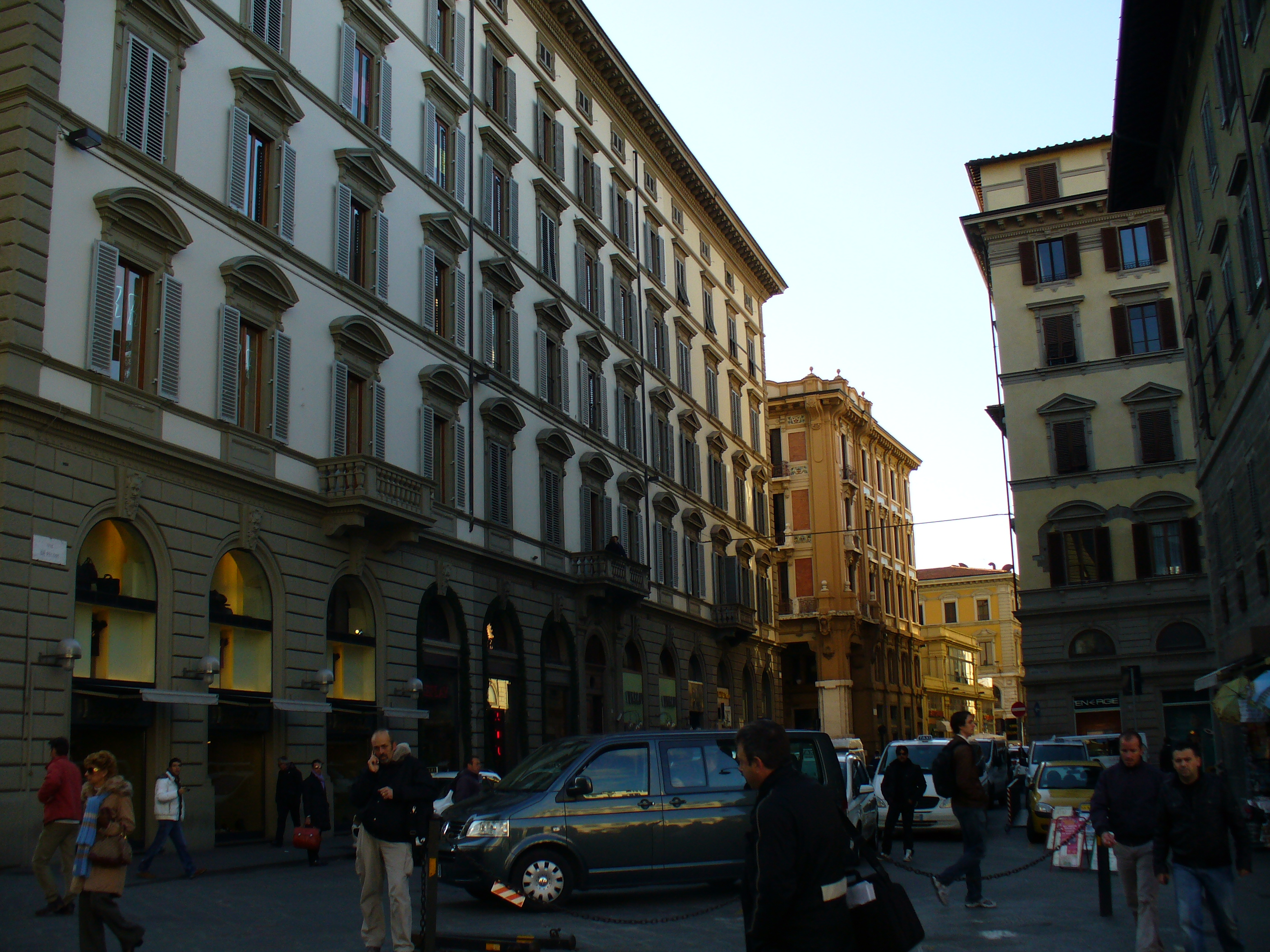 Via de' Pecori Firenze